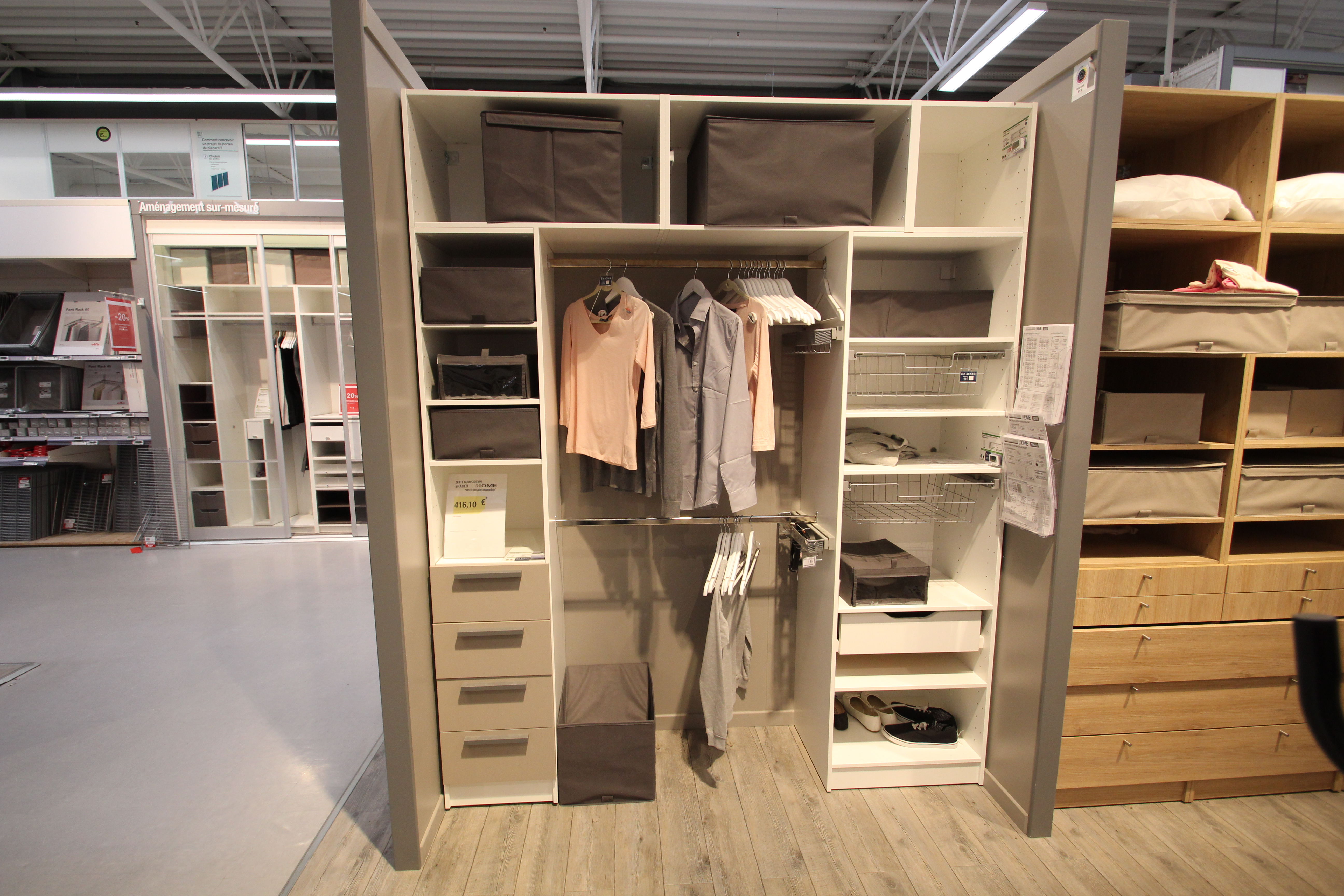 Hardware store Leroy Merlin in Massy, Essonne, France.